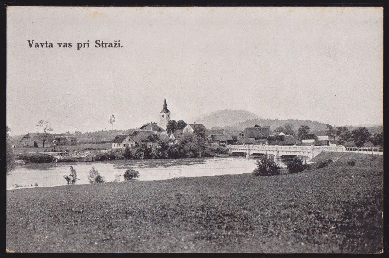 Postcard of Vavta vas.